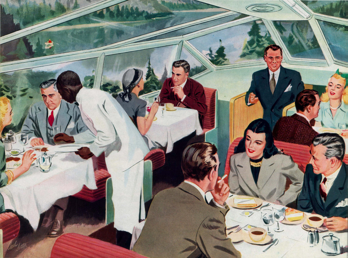 Artist's conception of the Sky View dining car from a promotional brochure distributed by General Motors describing the Train of Tomorrow, a demonstrator built by GM and Pullman-Standard.